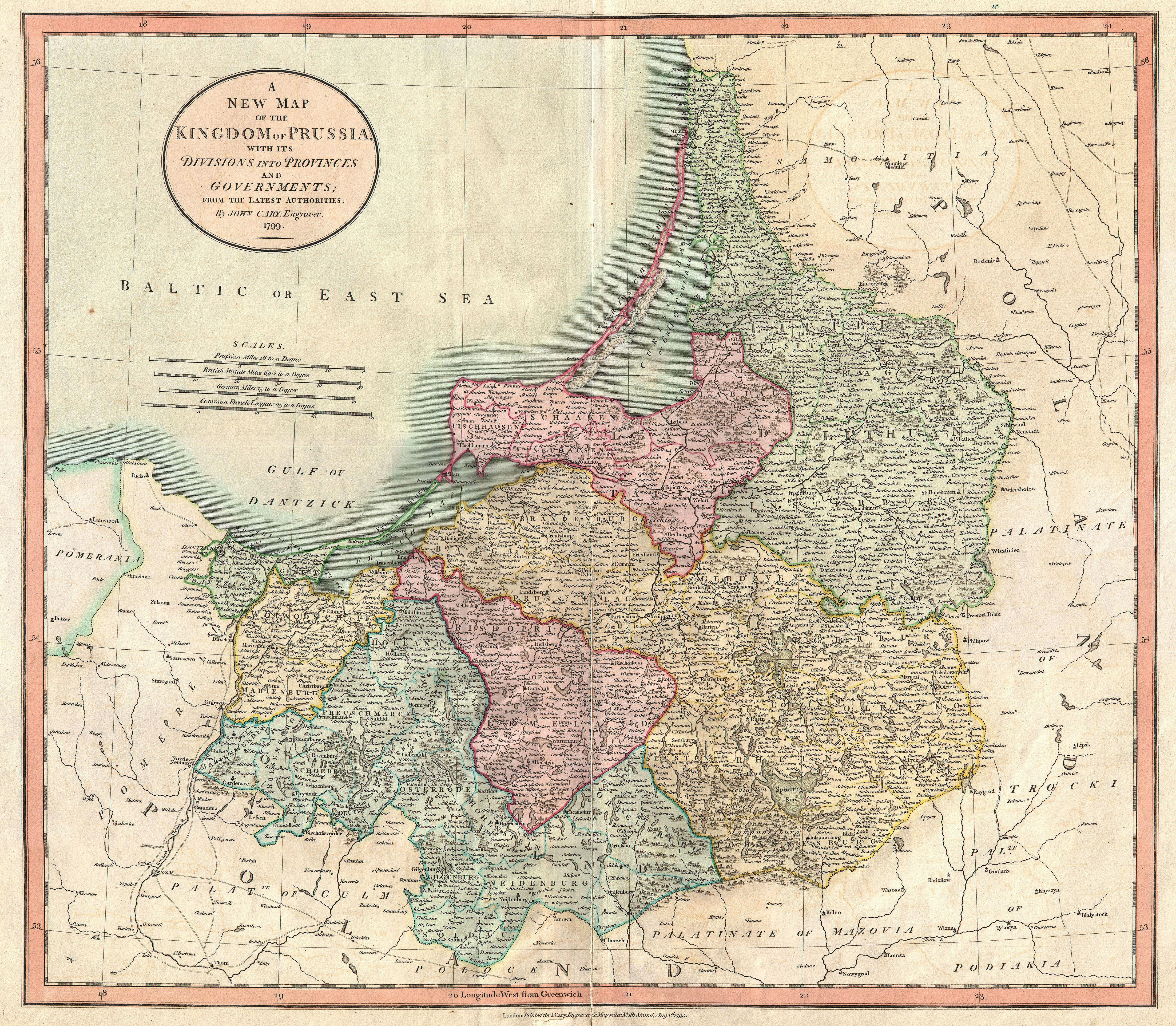 An extremely attractive example of John Cary’s 1799 map of Prussia. Covers from Pomerania eastward along the Baltic Coast as far as Poland, extends south to Soldau and north past Lithuania to Memel (modern day Klaipeda). Offers stupendous detail and color coding according to region. All in all, one of the most interesting and attractive atlas maps Prussia to appear in first years of the 19th century. Prepared in 1799 by John Cary for issue in his magnificent 1808 New Universal Atlas .